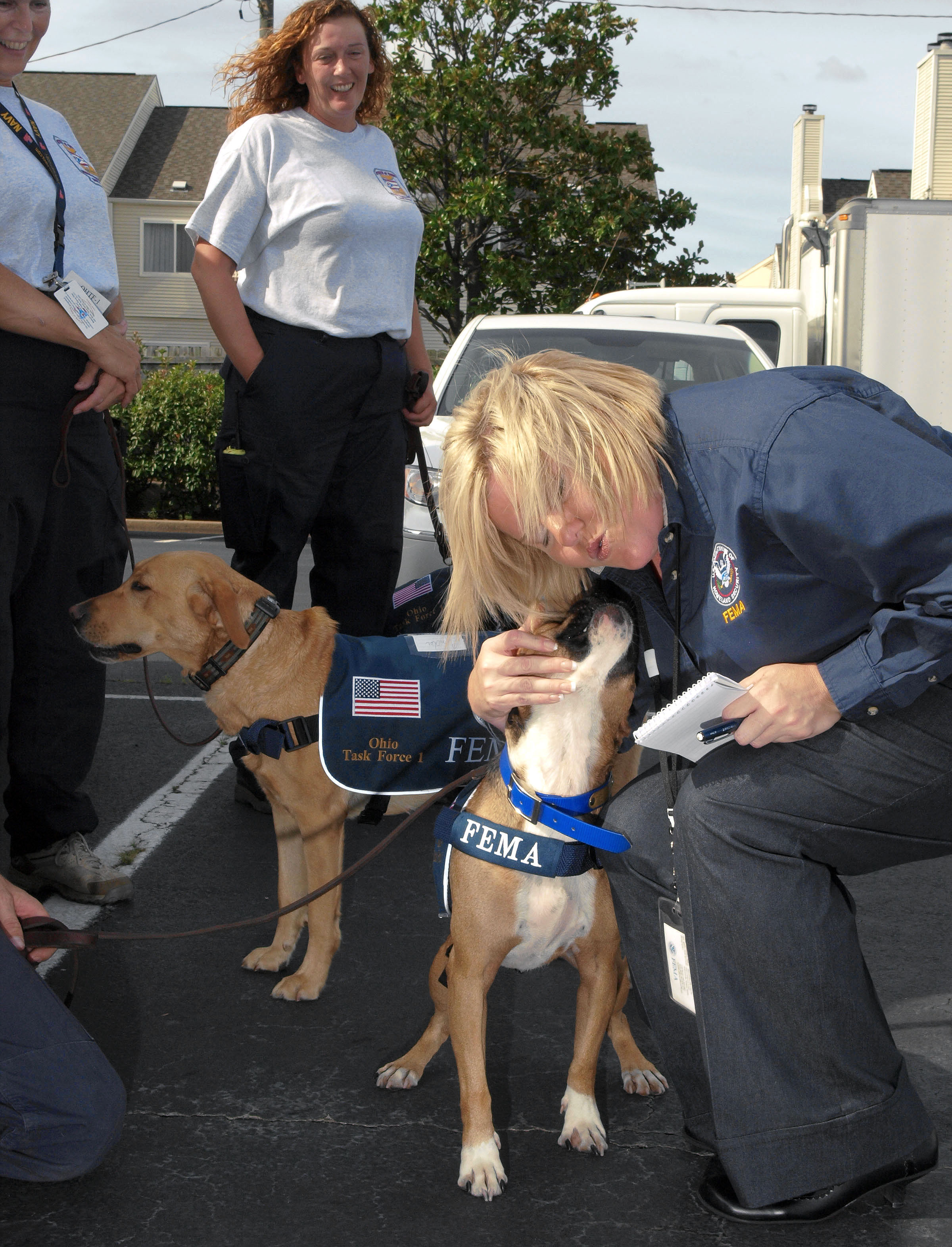 Atlanta, GA, Aug. 31, 2008-- FEMA Public Information Officer Dianna Gee, right, is greeted by rescue dog Buster, of FEMA's Urban Search and Rescue system's Ohio Task Force One, as members arrived in preparation for deployment as a result of Hurricane Gustav, at the Hilton Hotel. Also with the team are Pamela Bennett, left and Lisa Crowder and Cynder (dog). FEMA photo/Amanda Bicknell